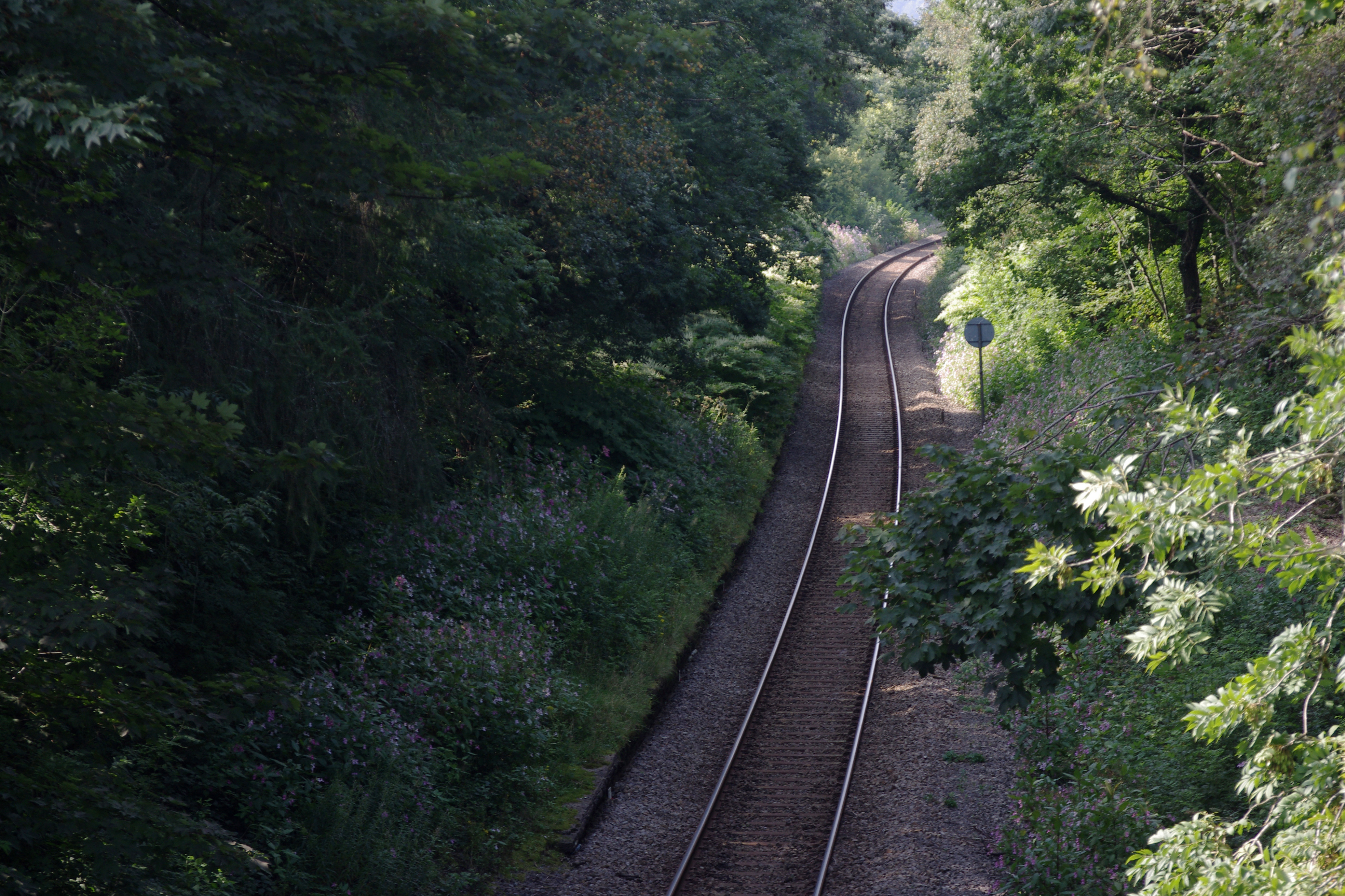 The old disused platform of Llangondyd railway station on the Maesteg Line.